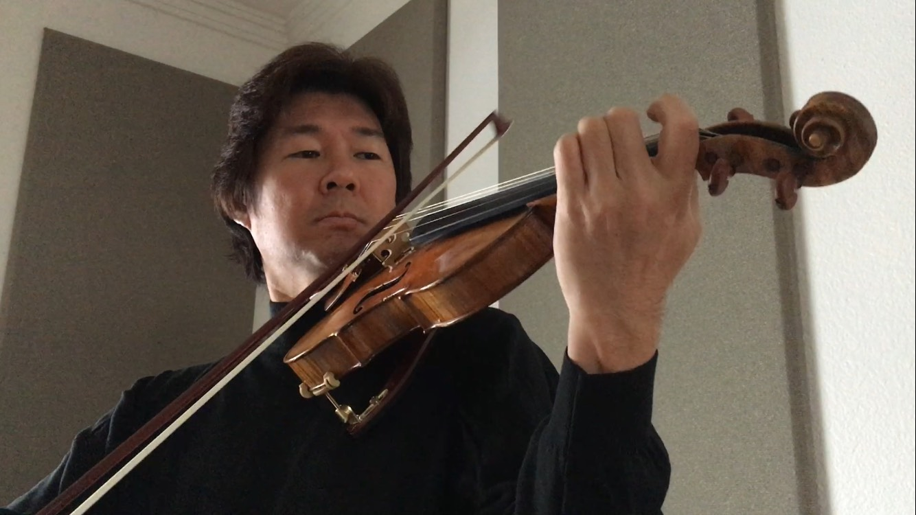 Gary Kuo playing the violin